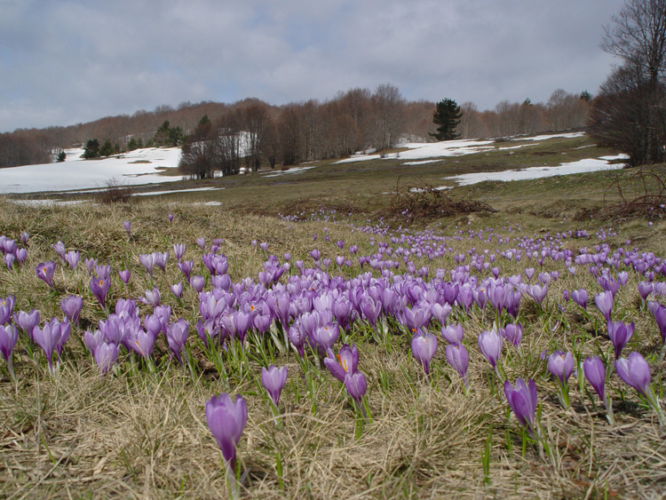 Crocus - Sila National Park